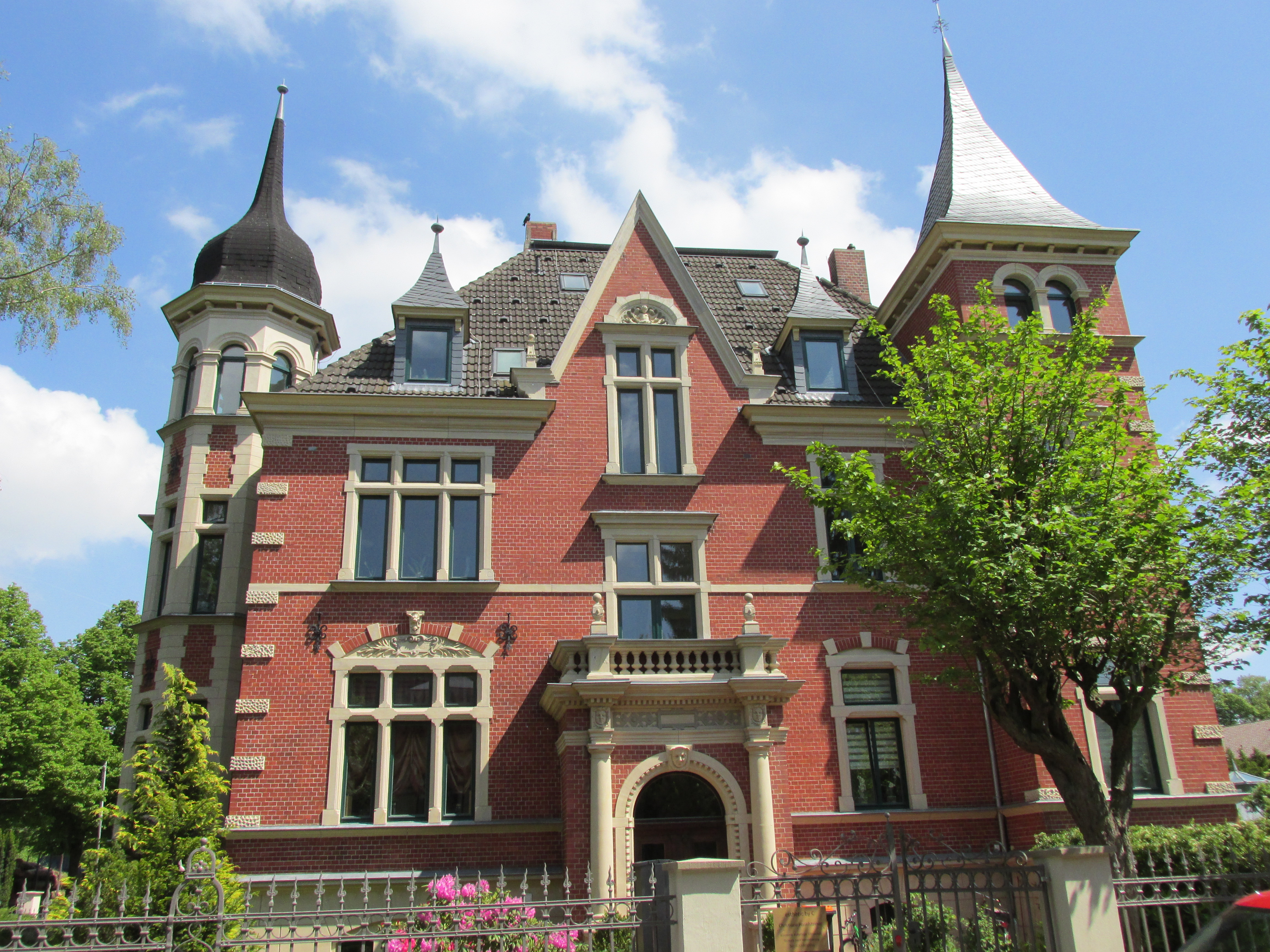 Kaiser-Wilhelm-Straße 1, Hanover, Germany